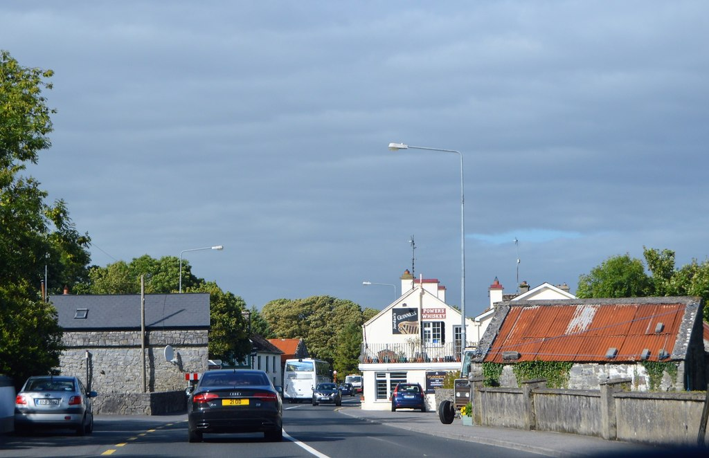 O'Looney's Bar